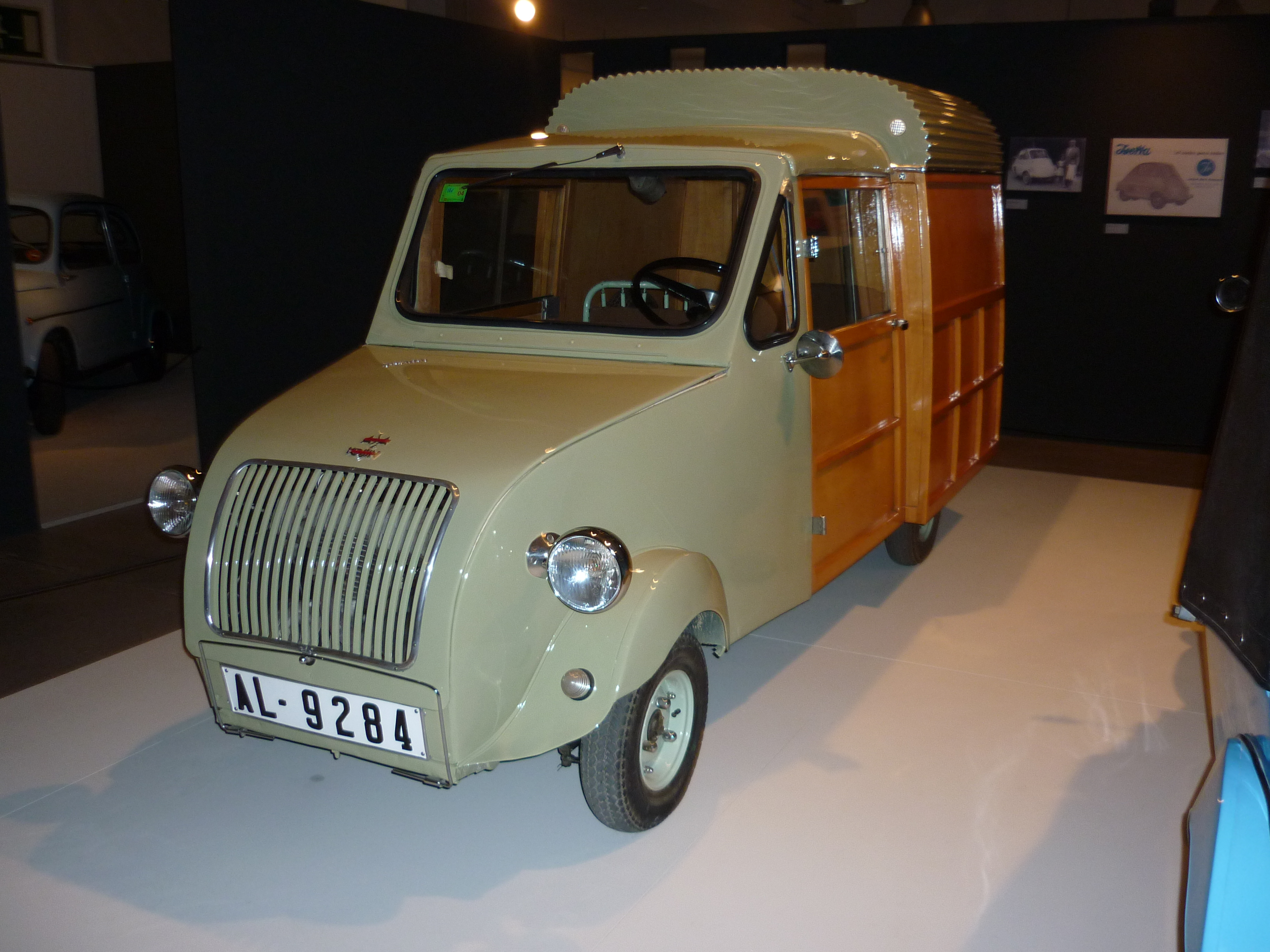 Biscúter Furgoneta 200-I (1958), microcar made in Catalonia